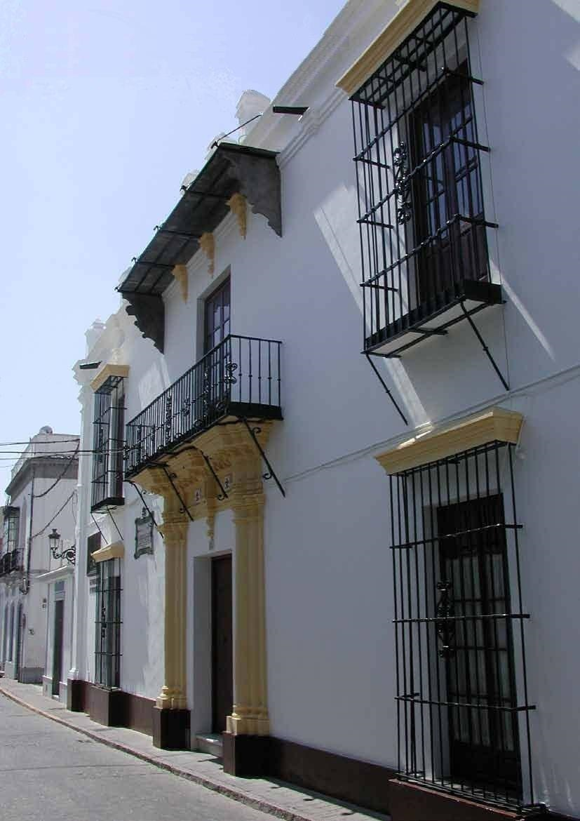 Fachada de la casa de la familia Hernández-Pinzón. Entre ellos del Almirante Luis.